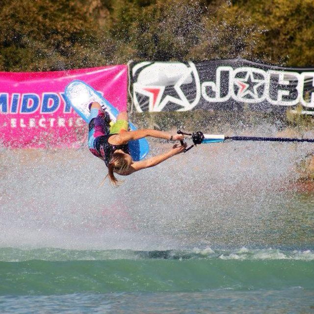 Chantal Singer competing in trick skiing at the 2012 Junior World Waterski Championships Mulwala, Australia.